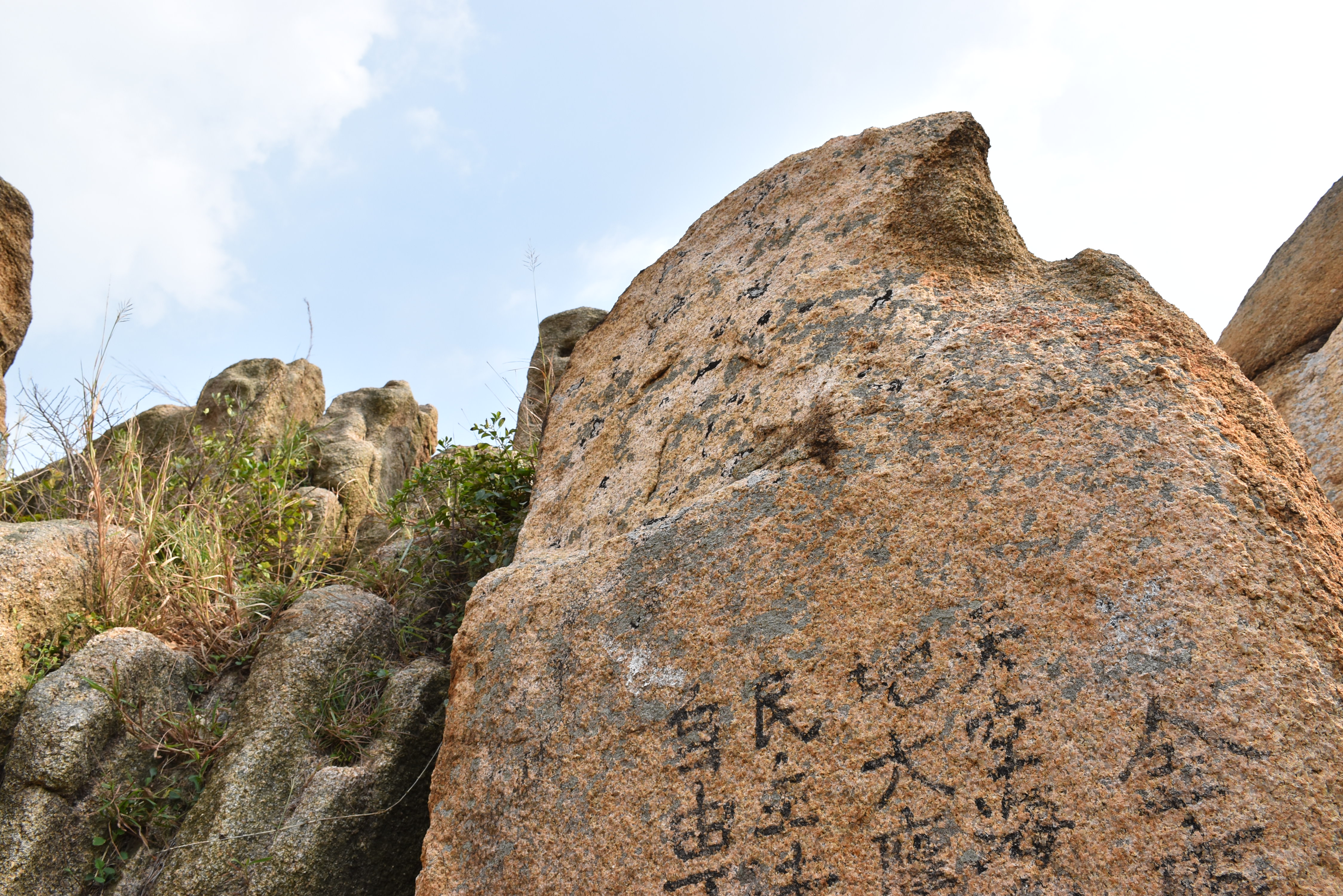 eagle